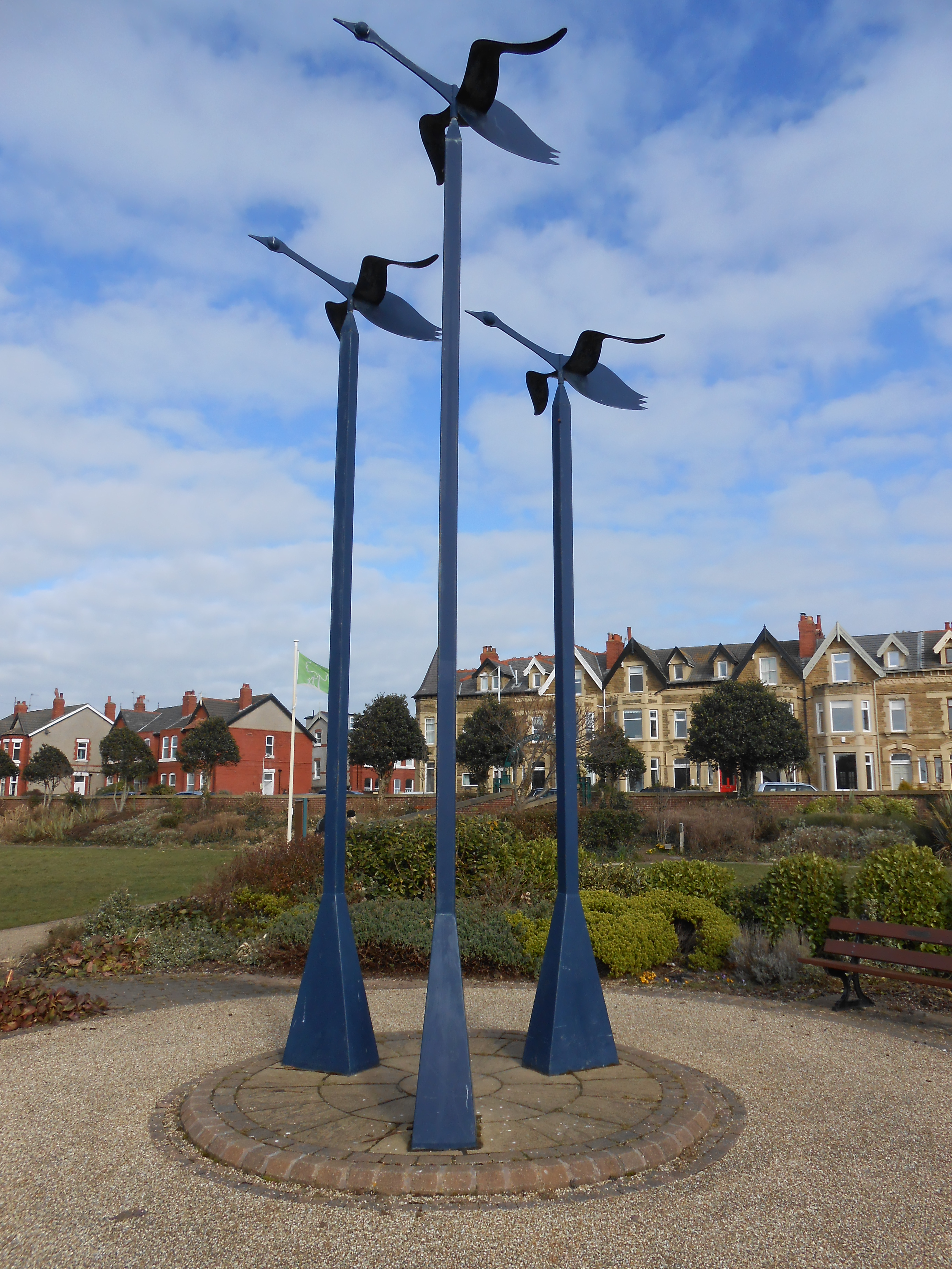 Photo taken at Coronation Gardens, West Kirby, Wirral, Merseyside, England.